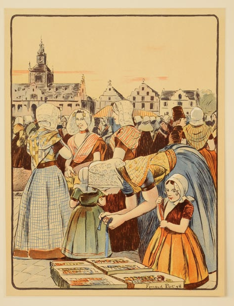 Le Marché de Zeelande by Fernand Piet, lithographic print from L'Estampe moderne, vol. I, Paris, F. Champenois.